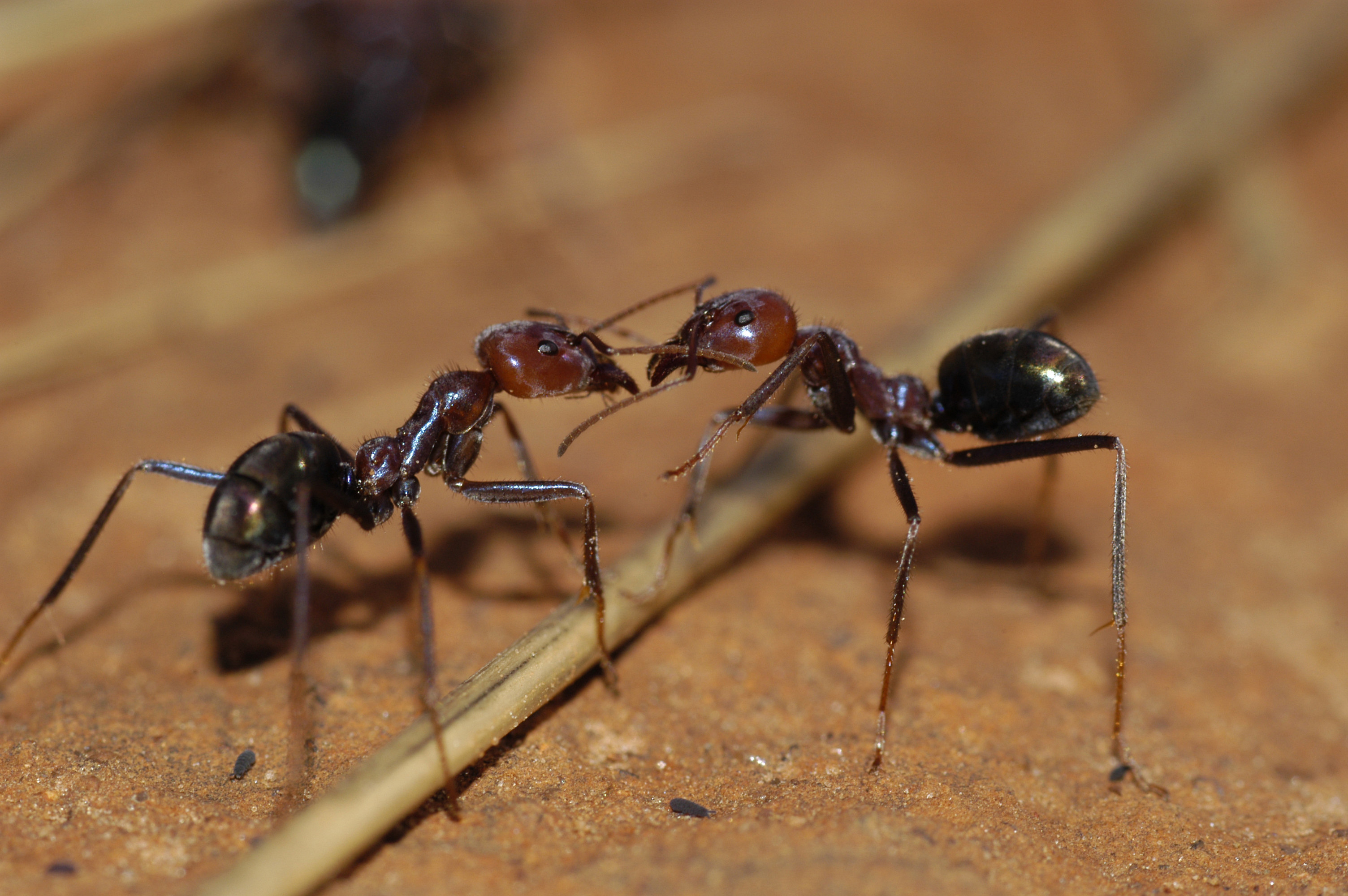 Two meat ants communicating on the ground